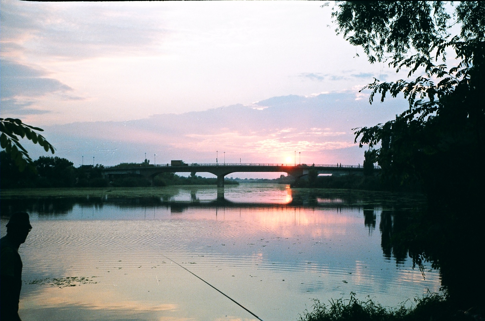 Bridge on the Danube-Tisa-Danube canal at Srbobran, Serbia, Vojvodina/Pont sur le canal Danube-Tisa-Danube à Srbobran, Voïvodine, Serbie